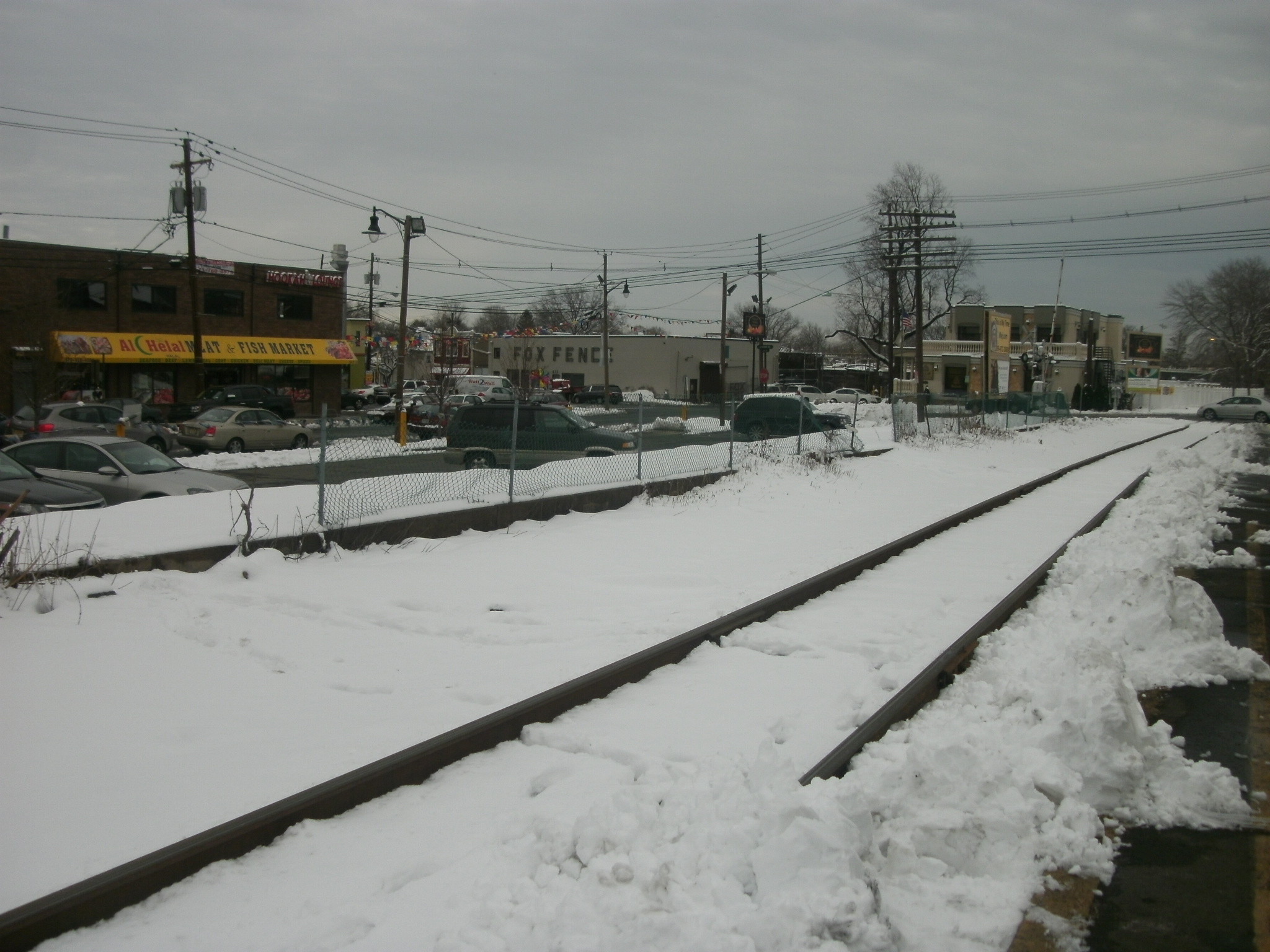 The site of the former Erie Railroad Lake View station in Paterson, New Jersey. The platforms for both directions are covered in snow and remain intact.